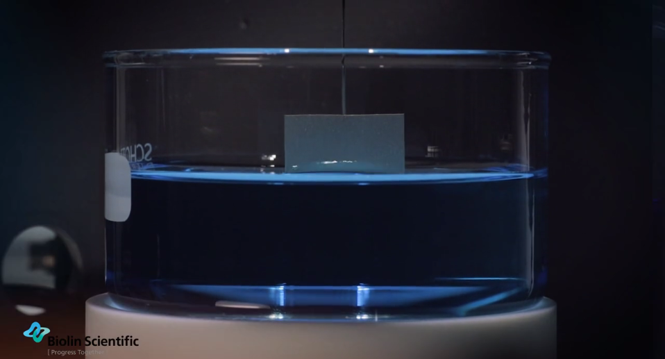 Wilhelmy plate measuring surface tension